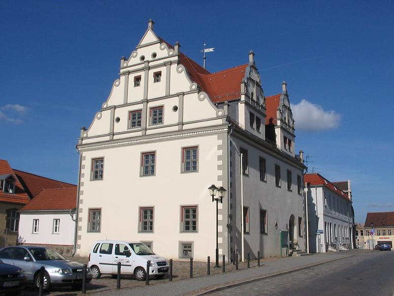 City hall in Renaissance style in Niemegk, built in 1570. The town Niemegk is a part of the Potsdam Mittelmark, state Brandenburg, Germany.